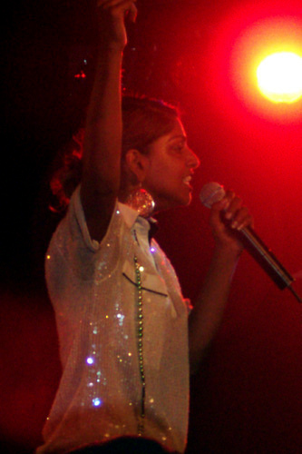 m.i.a. at the prince, melbourne. feb 06.